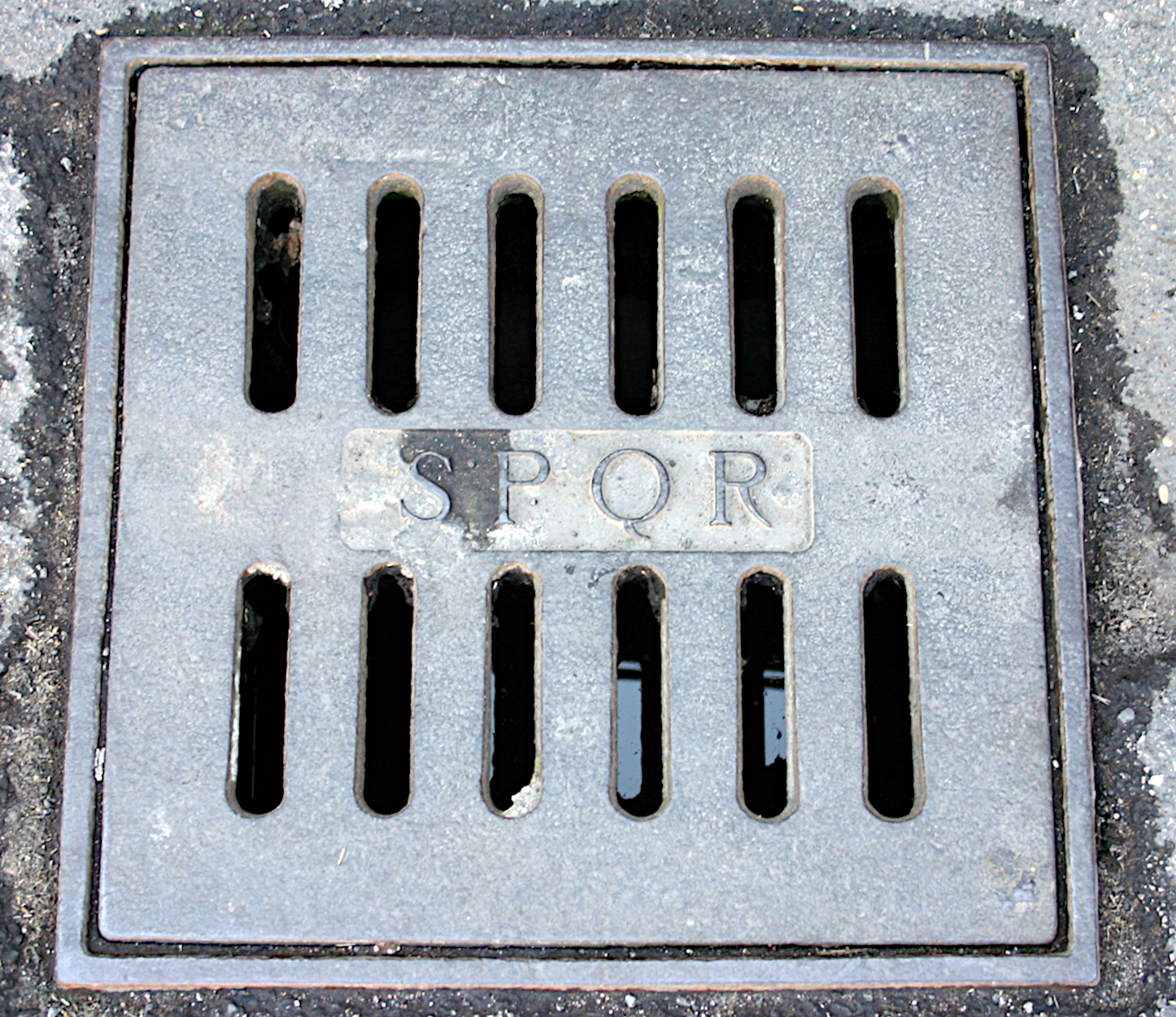 Manhole cover with SPQR inscription in Rome, Italy. This is not a manhole cover. It is a so-called grate for a (rain)water drain.